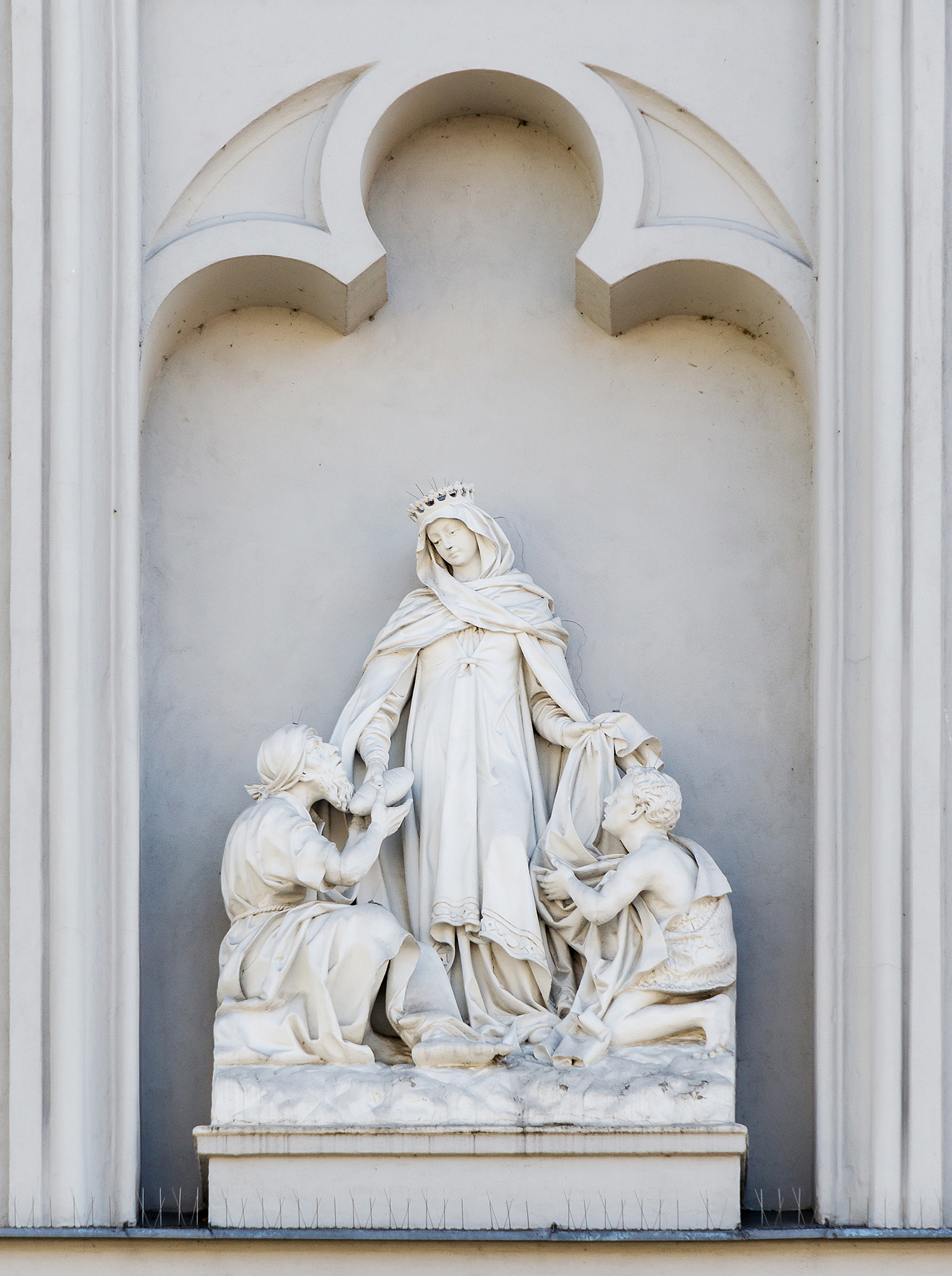 Convent of Saint Elizabeth in Nysa, Elisabeth of Hungary sculpture